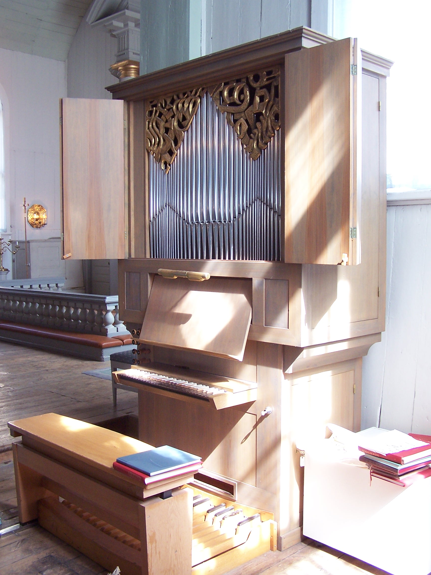 Choir organ in Amiralitetkyrkan, Karlskrona.